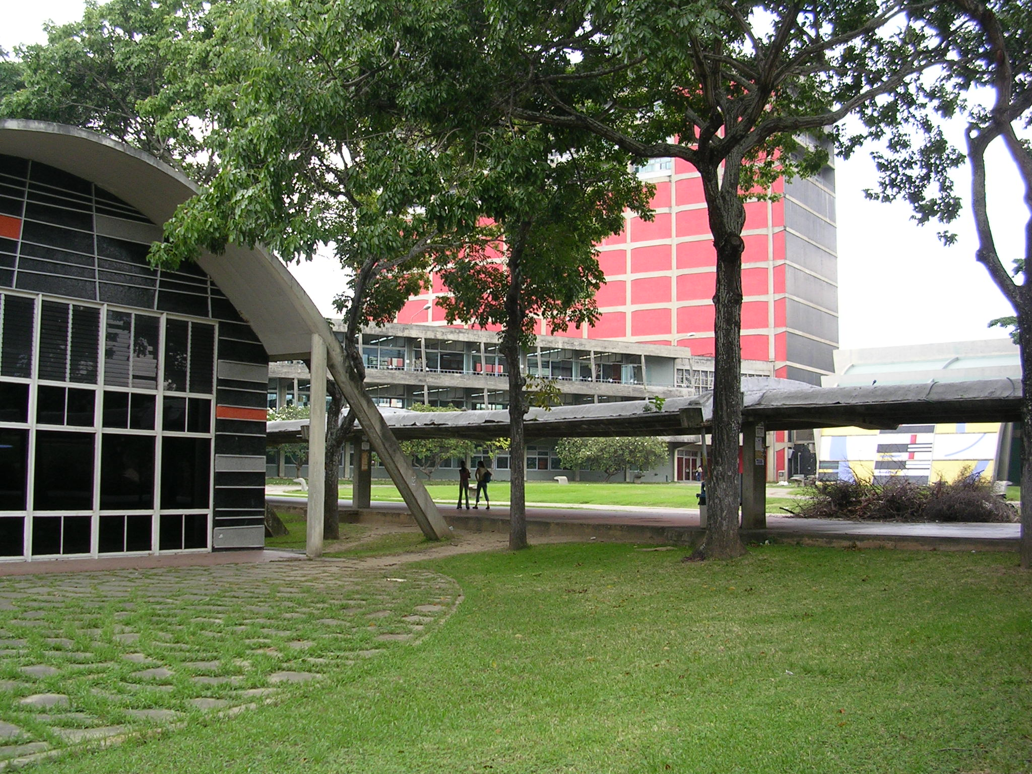 Alejandro Otero (Mural)-[left], Mateo Manaure (Mural)-[right] and main library of the "Ciudad Universitaria de Caracas". Modern movement art + architecture in Venezuela. Photo by Caracas1830 (2005)